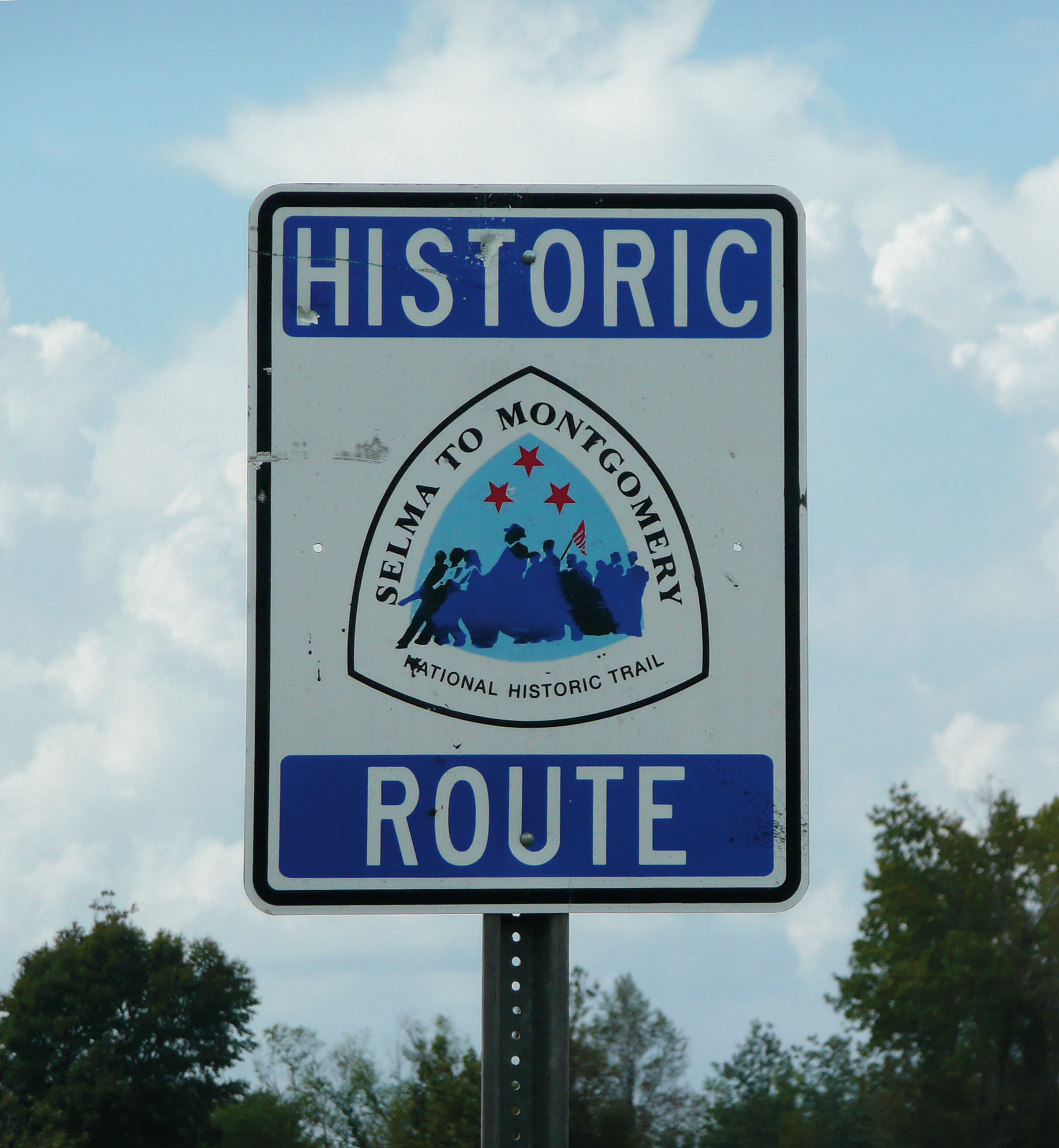 Selma to Montgomery marches' road sign